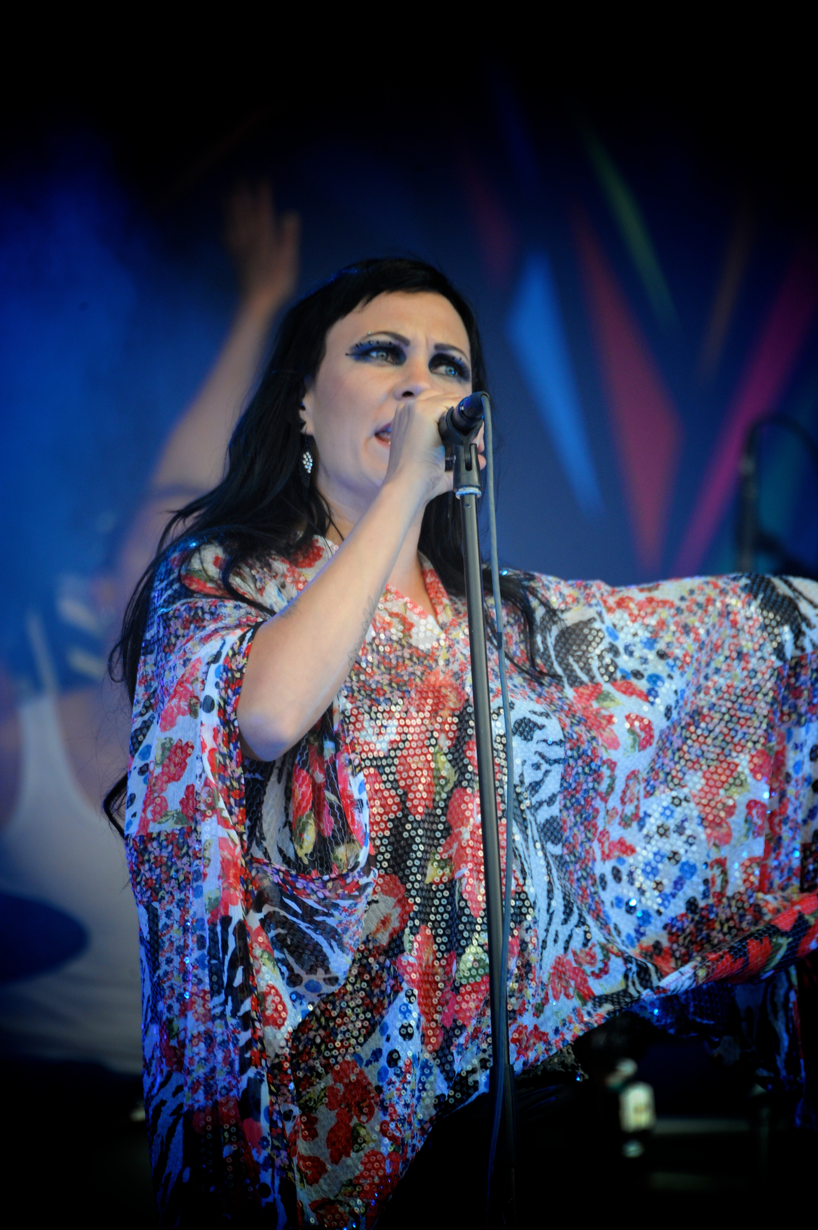 PMMP performing at Ruisrock 2010